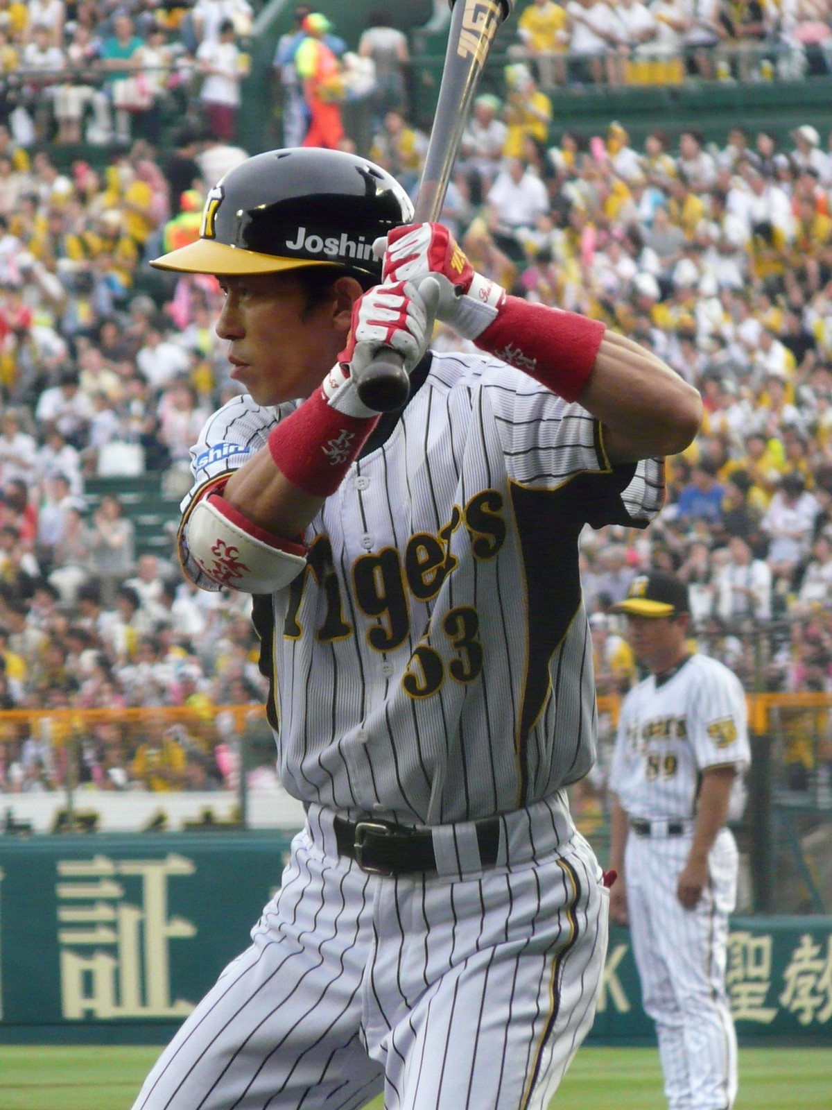 Norihiro Akahoshi, outfielder of the Hanshin Tigers, at Hanshin Koshien Stadium.